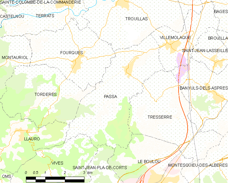 Map of French municipality